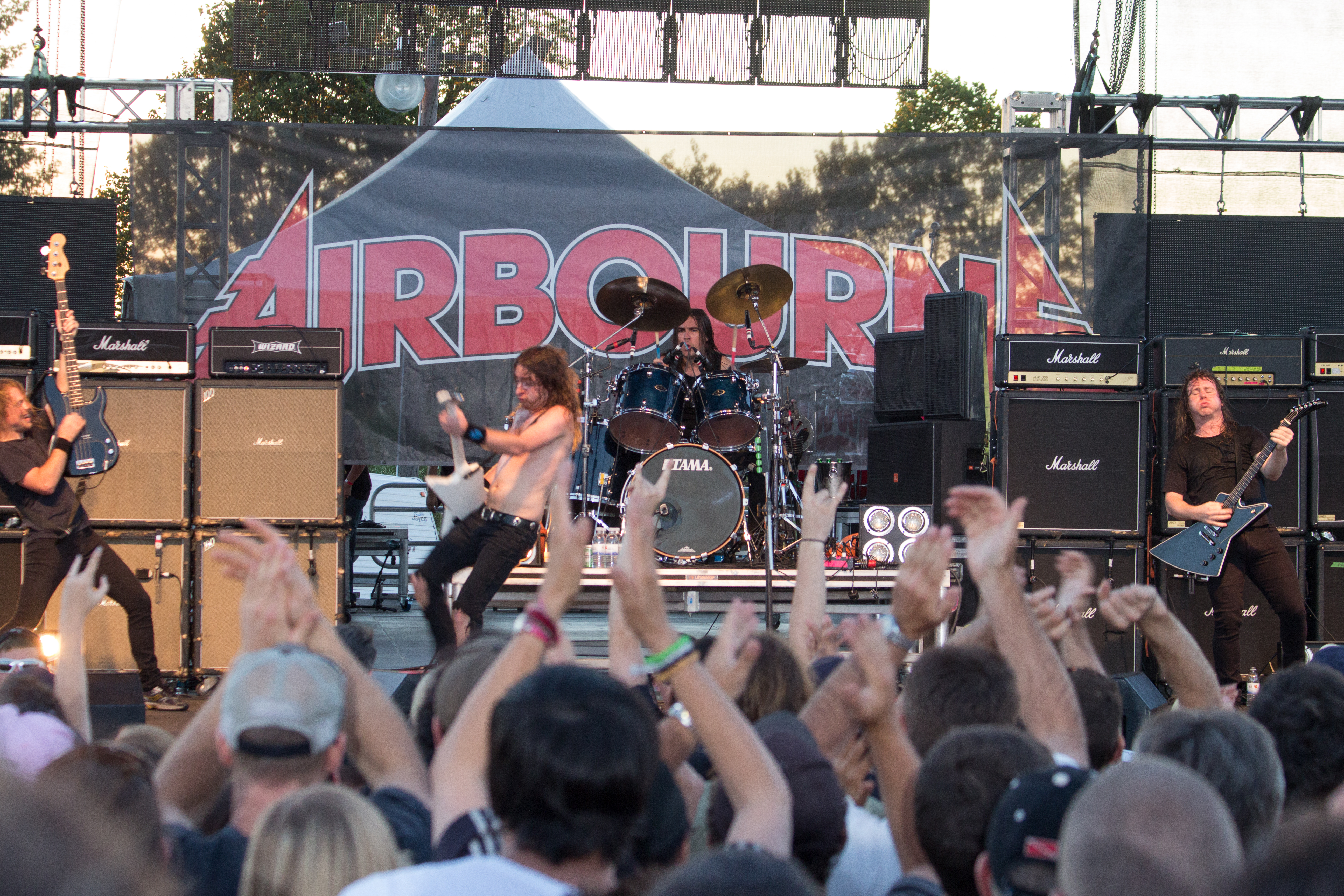 Airbourne performing at Festival of Friends in 2013